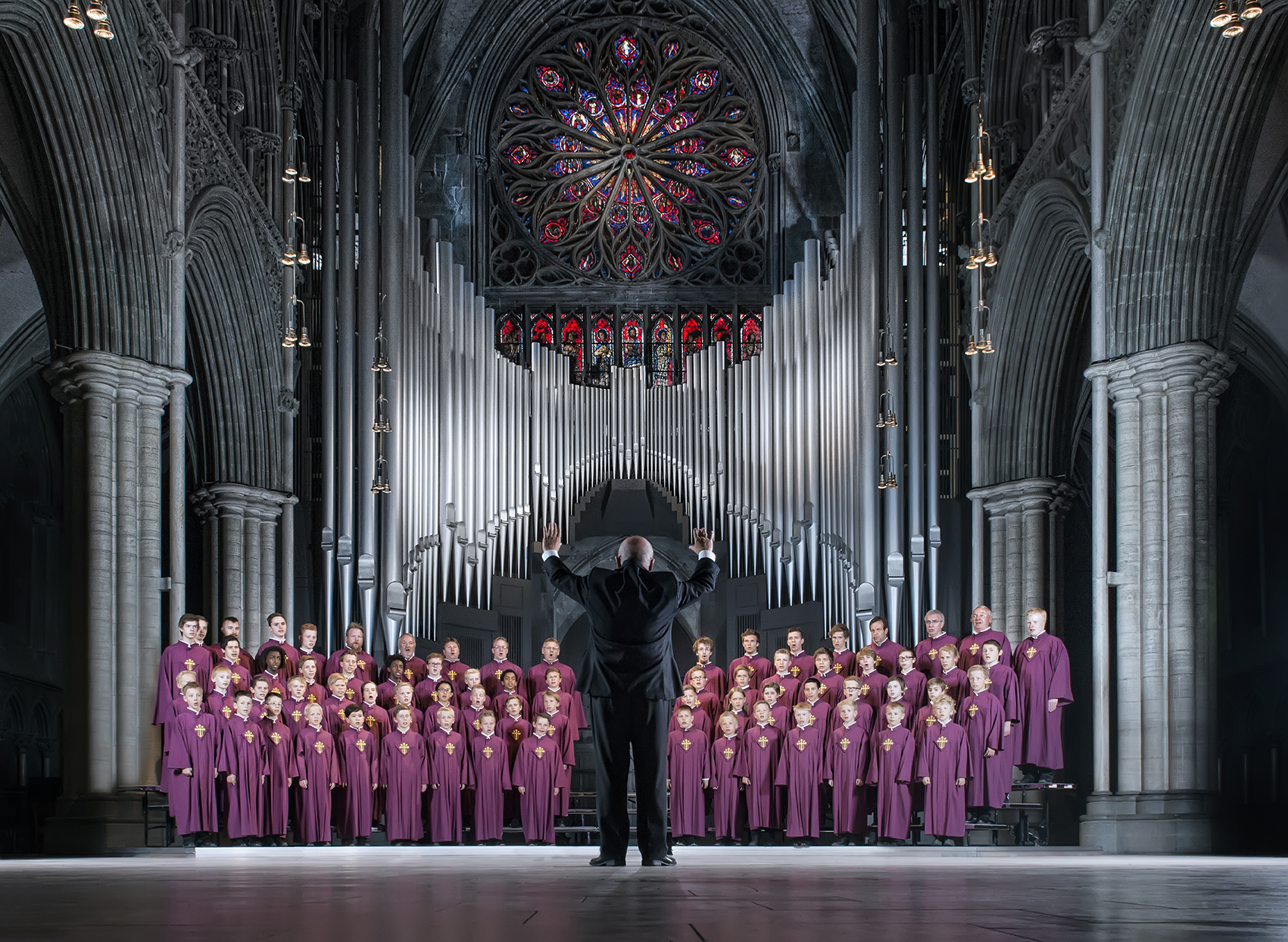 Pricewinning photo of the Nidaros Cathedral Boys' Choir in the Nidaros Cathedral in Trondheim, Norway